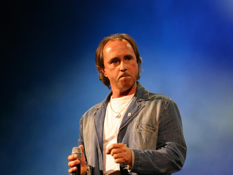 Miklós Varga